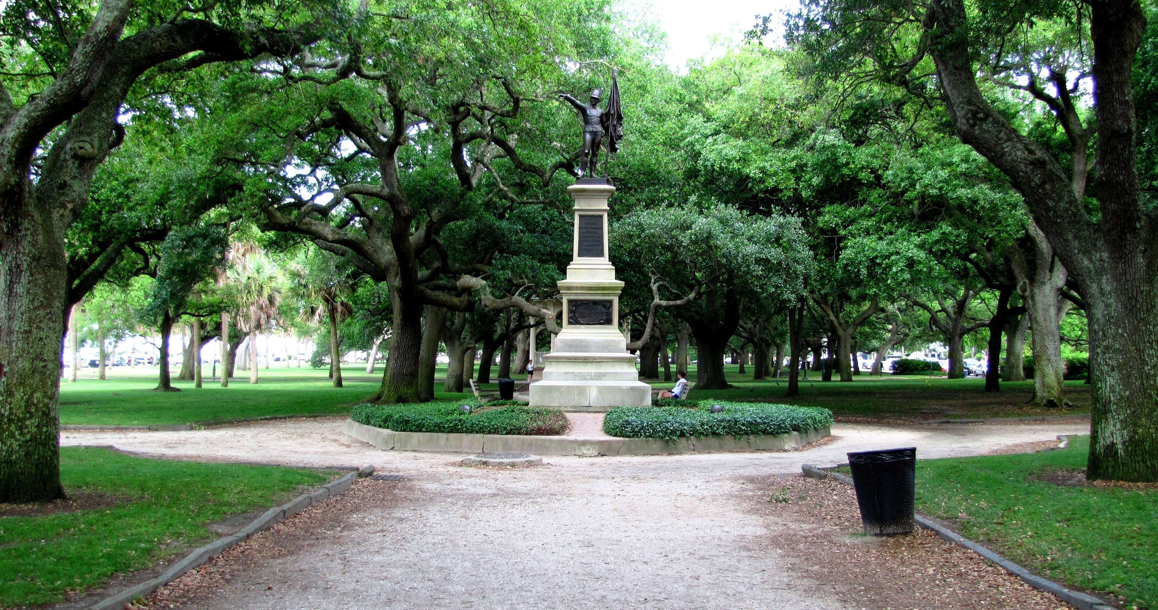 White Point Garden in Charleston, South Carolina, USA.